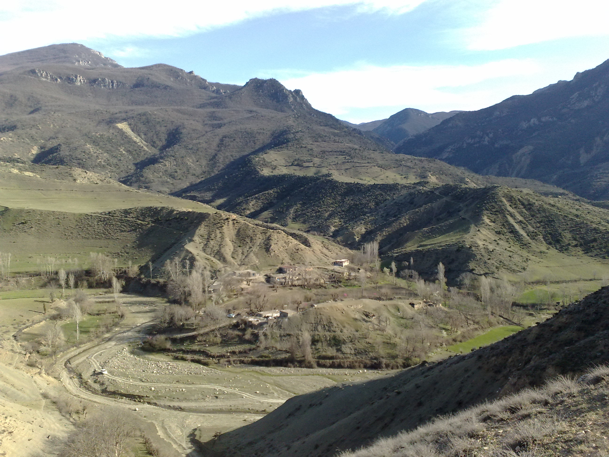 For Qaratikanloo wiki page.